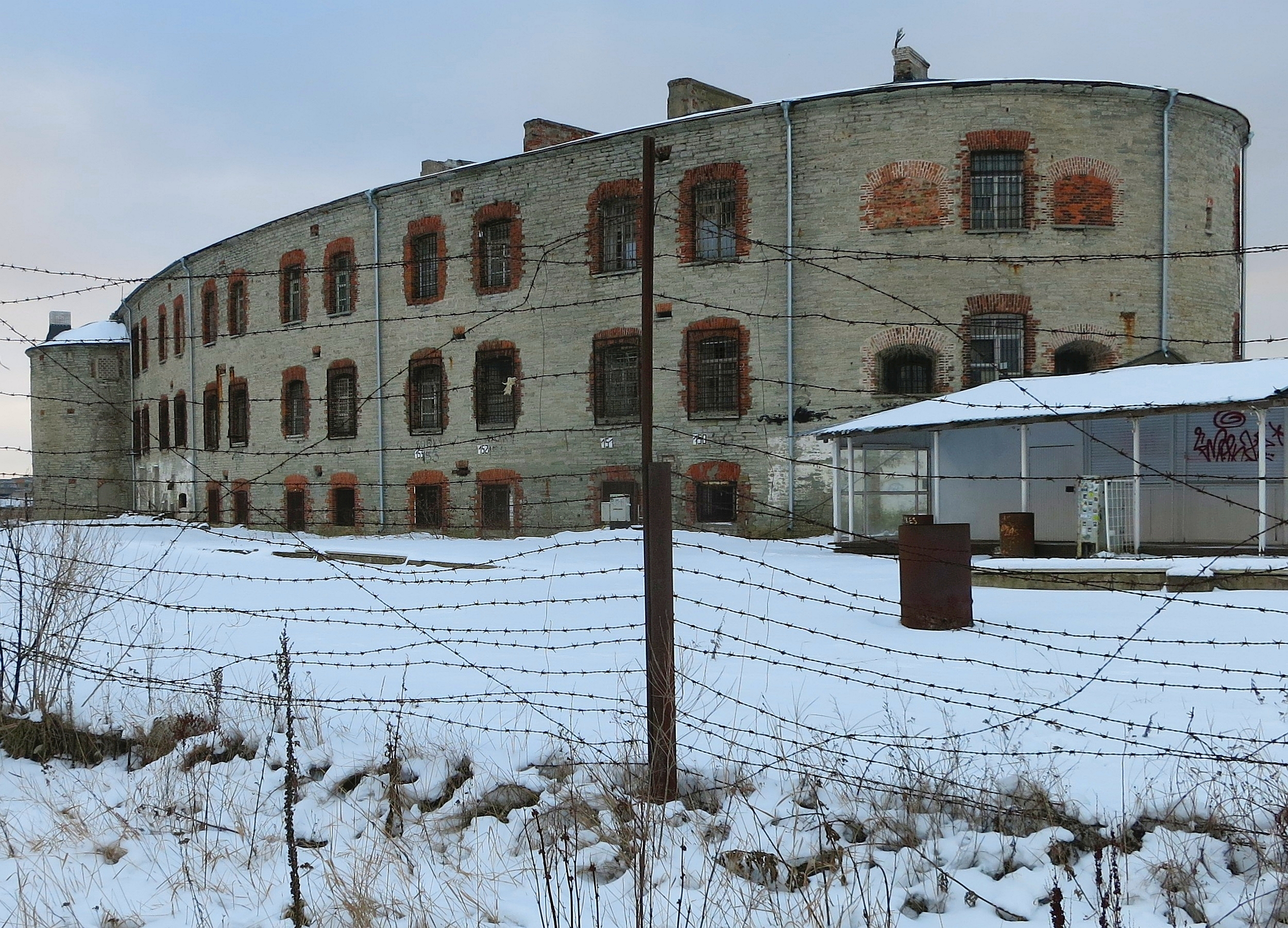 Northwestern part of previous Patarei Prison in Tallinn (Estonia)